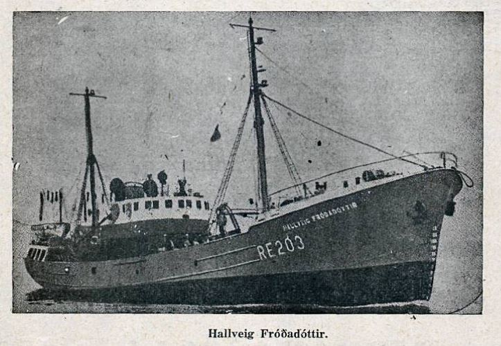 The diesel trawler Hallgerður Fróðadóttir, first Icelandic diesel trawler